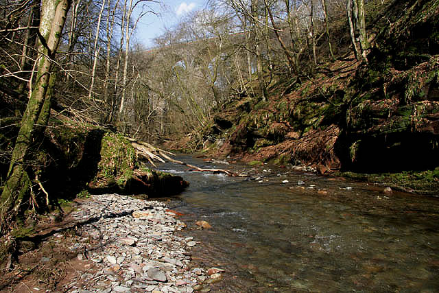 The Carron Water The river flows through a ravine at High Enoch. A railway viaduct can just be made out through the trees in the background.